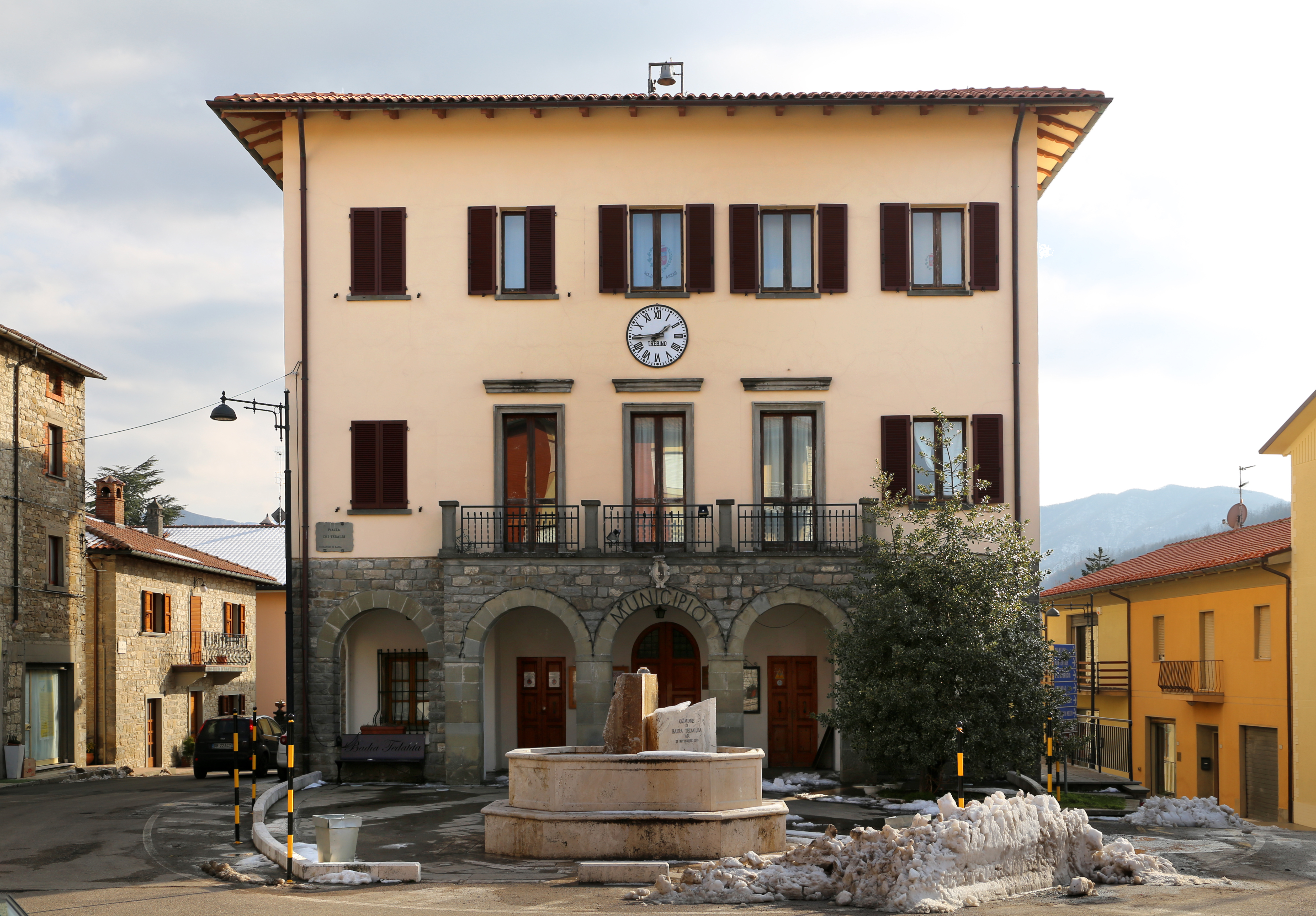 Badia Tedalda